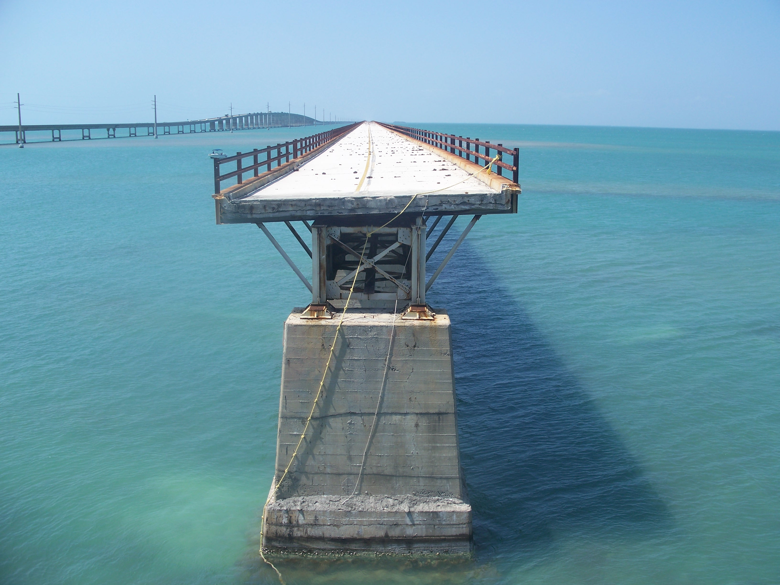 Pigeon Key, Florida: Pigeon Key Historic District: Old Seven Mile Bridge